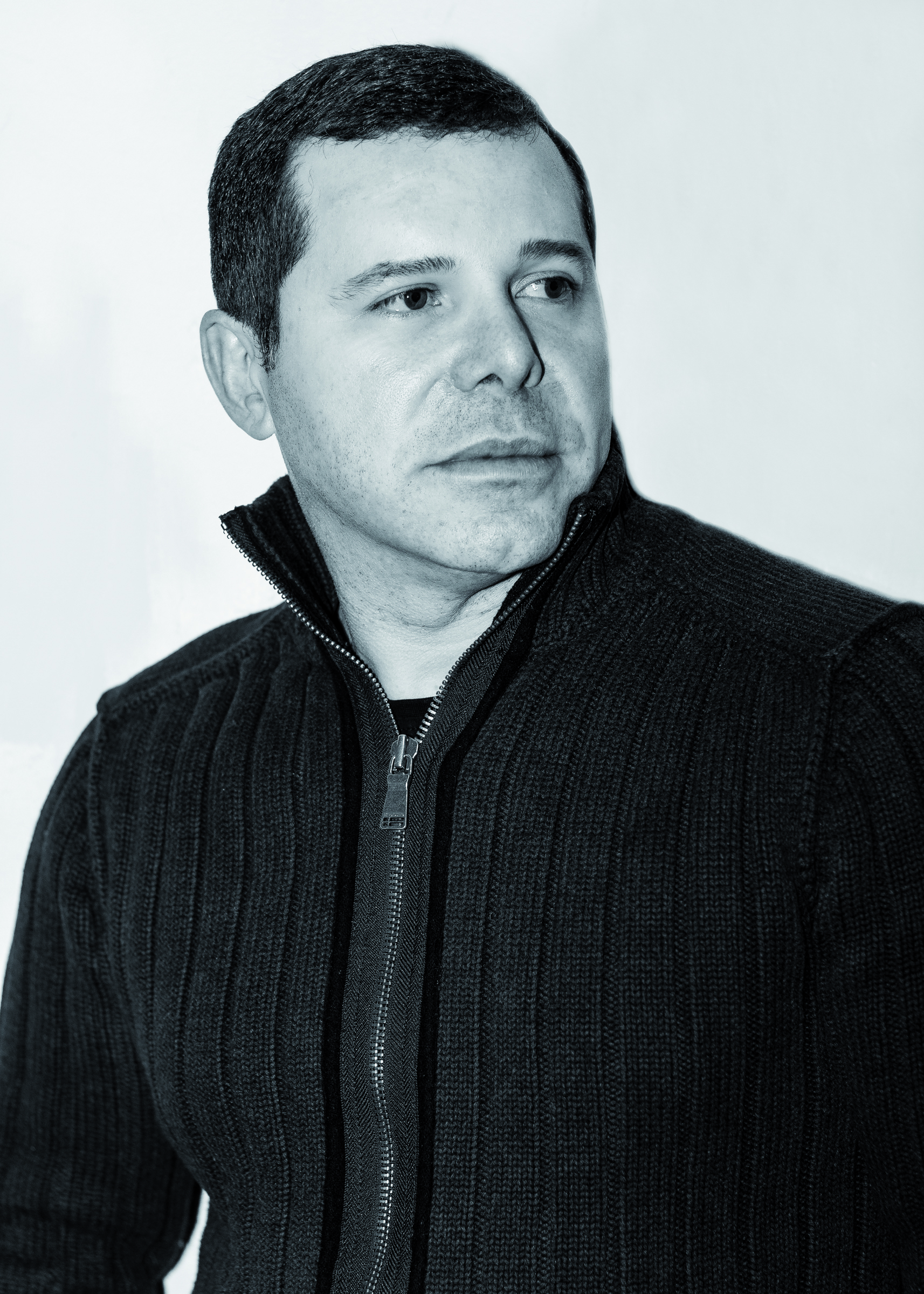 Pedro Sandoval in 2013